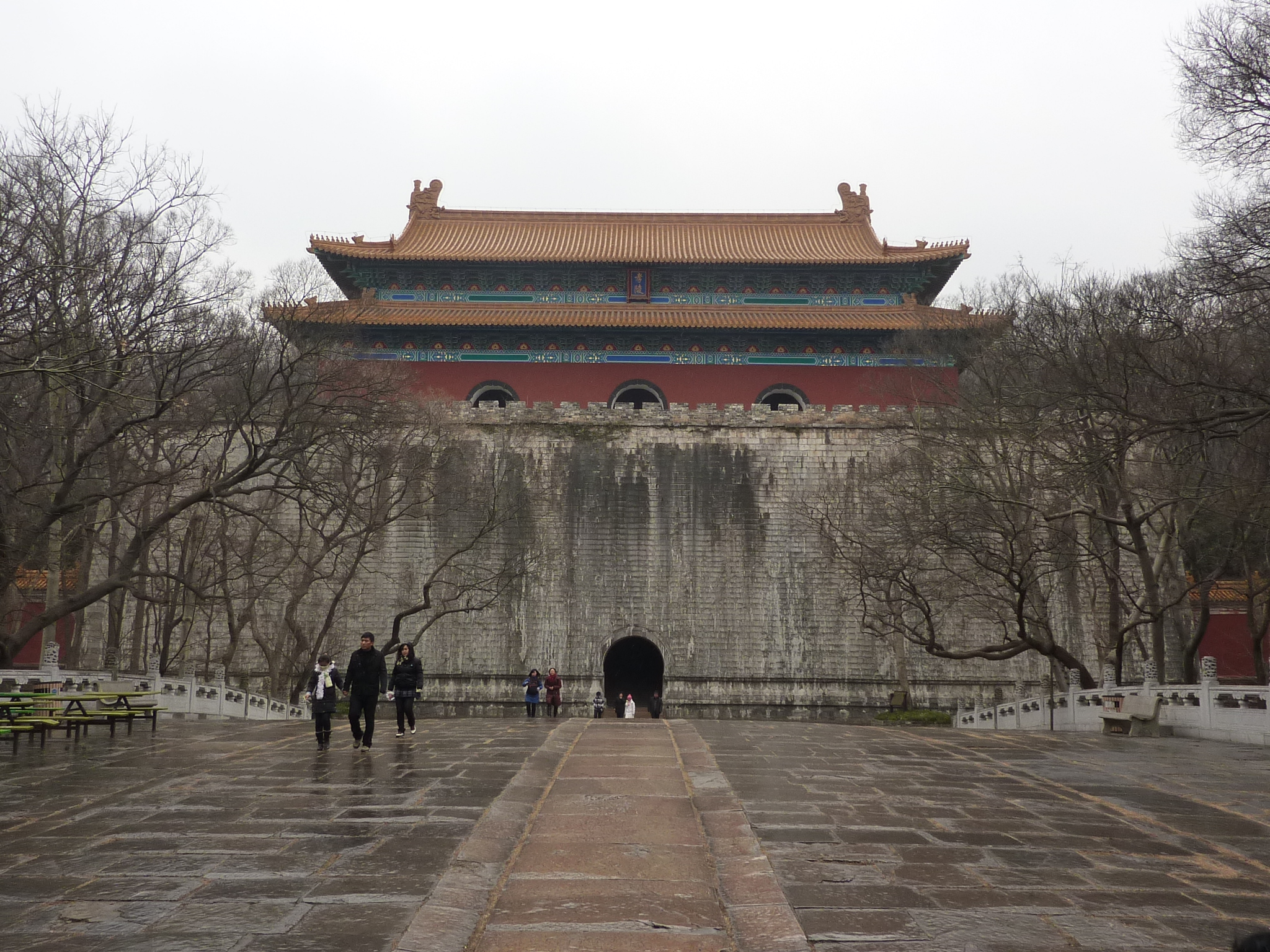 The Ming Lou (the Soul Tower)